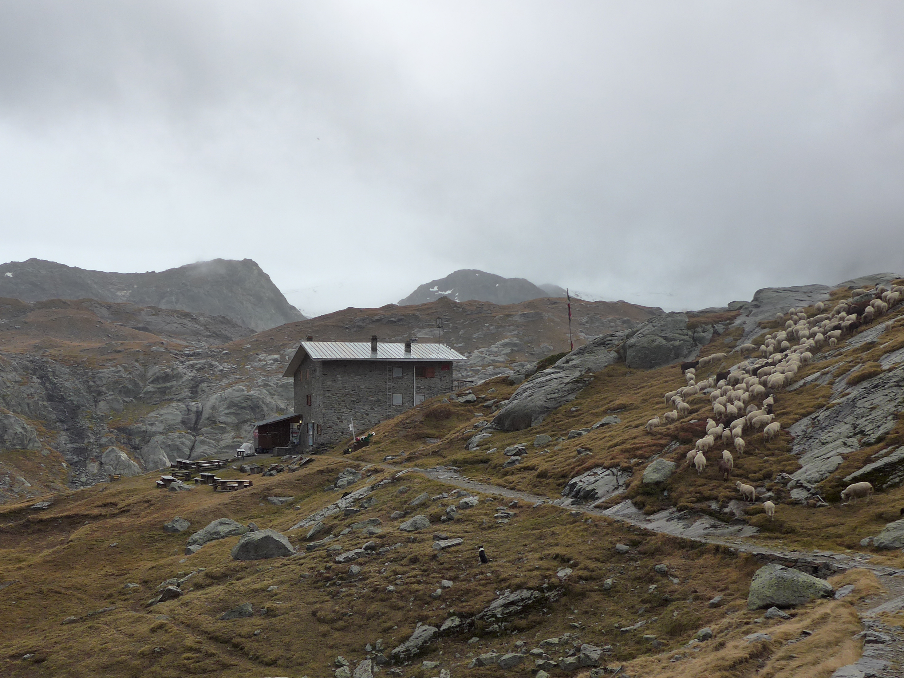 Rifugio Deffeyes from last part of ascent